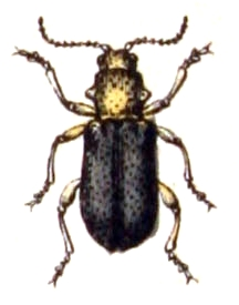 Zeugophora subspinosa, from Calwer's Käferbuch, Table 42, Picture 7. Taxonomy was updated to 2008, using mostly the sites Fauna Europaea and BioLib. Please contact Sarefo if the determination is wrong!